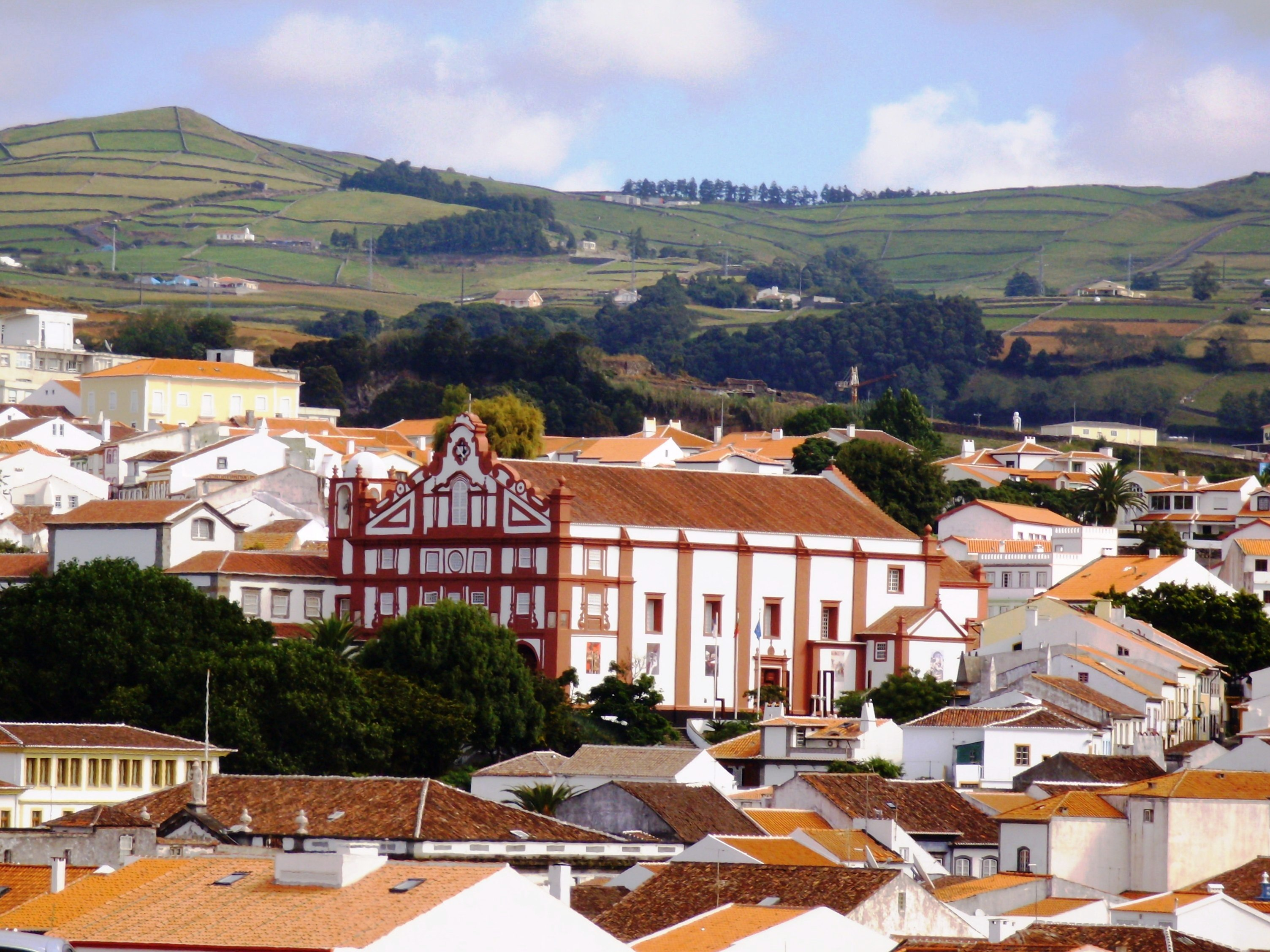 The Church of the old Convent of São Francisco (today the Museum of Angra do Heroísmo), Sé, Angra do Heroísmo, Terceira (Azores), Portugal